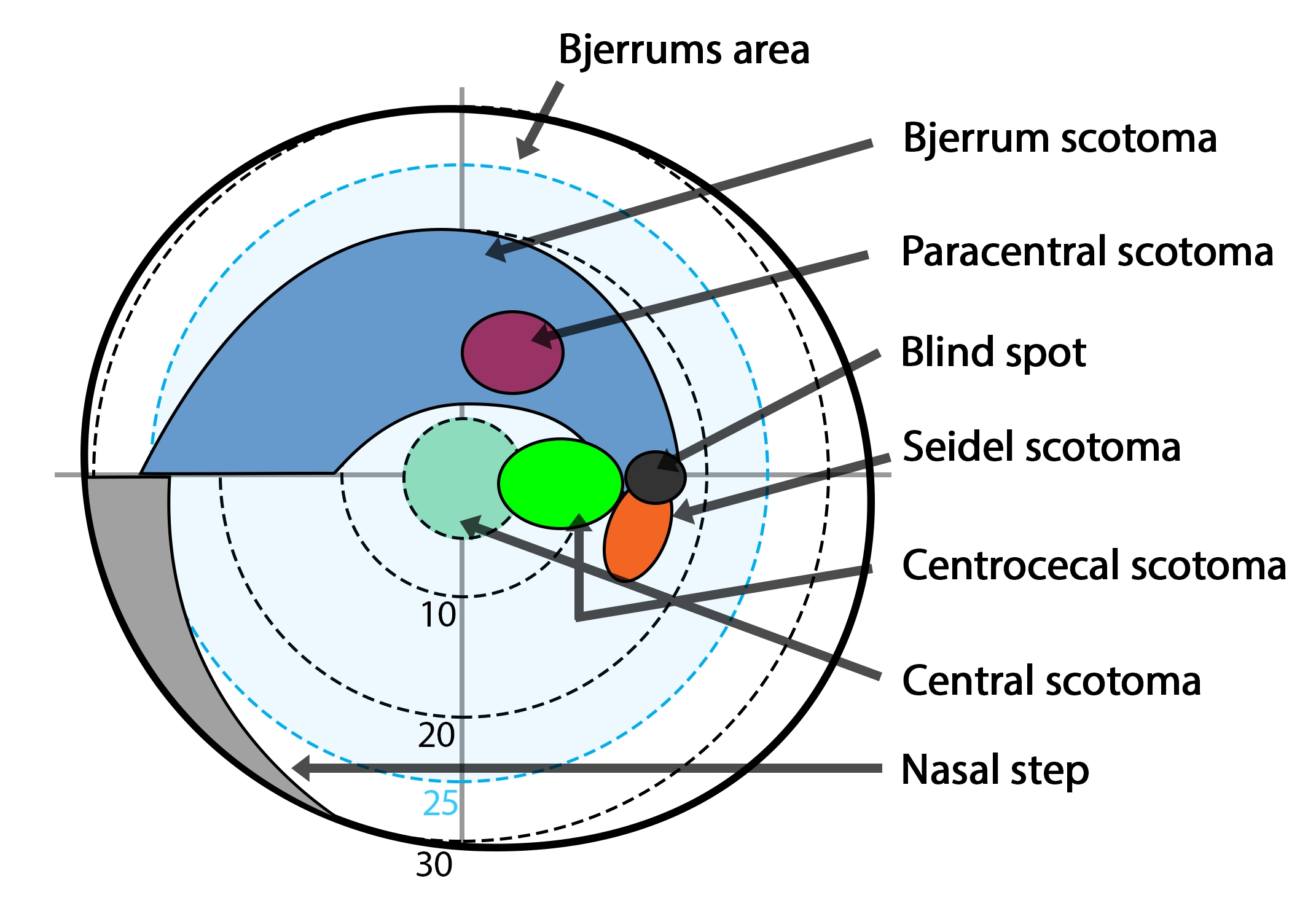 Graphic detailing the location on the visual field of Jannik Bjerrum's area, as well as several other types of scotomas - including the paracentral scotoma, the central scotoma, seidels scotoma, bjerrums scotoma and the centrocecal scotoma.